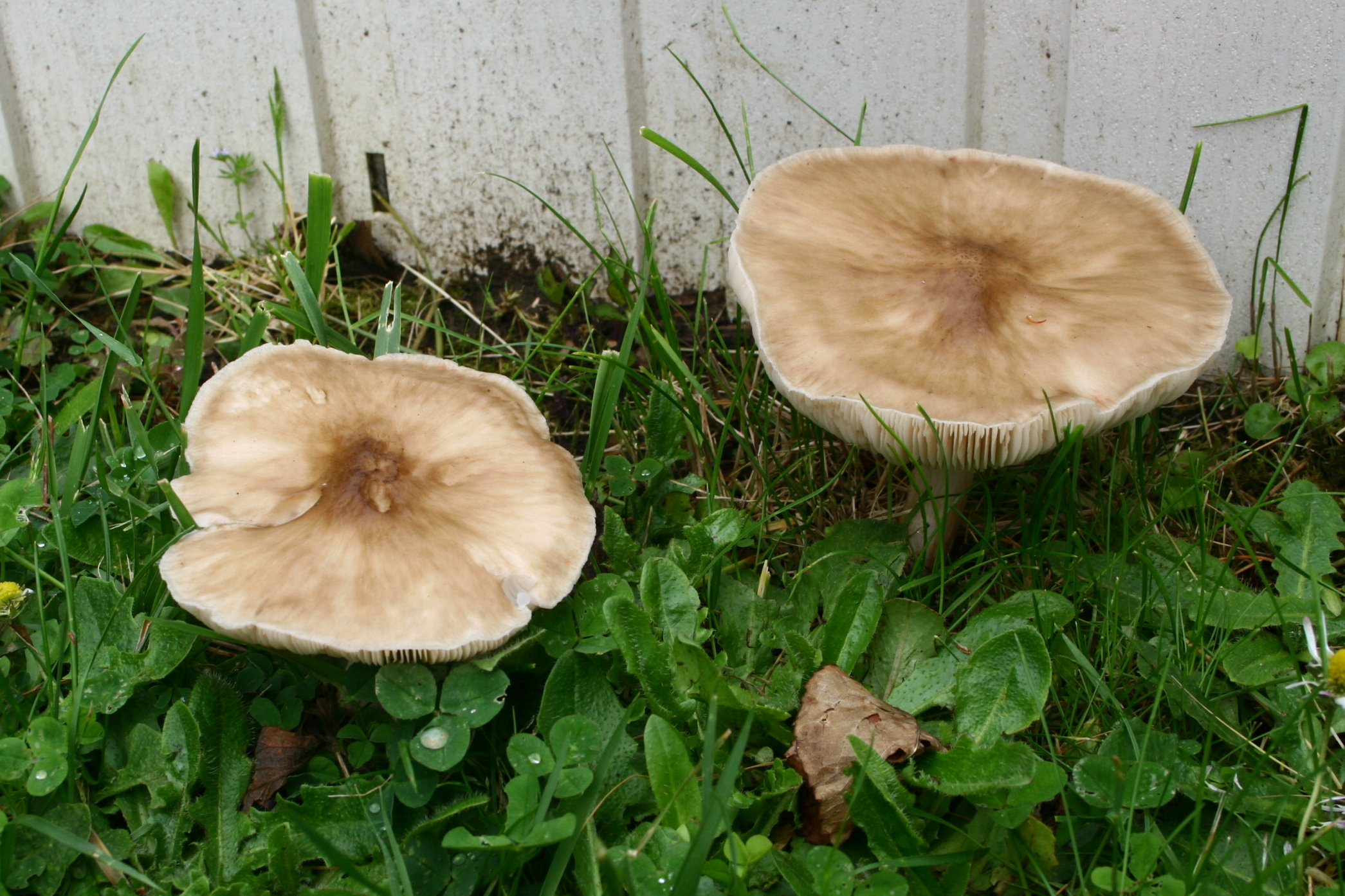 Pluteus petasatus in a garden in Massy, France.